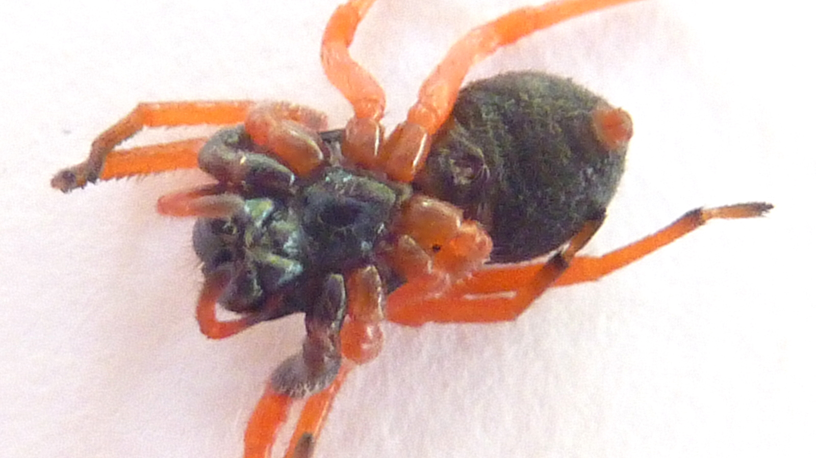 Trachelopachys gracilis (Keyserling, 1891), female